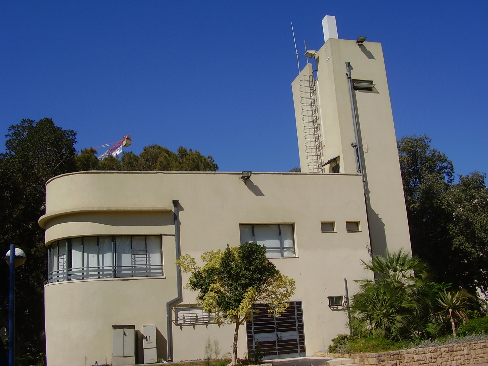 haganah museum in holon